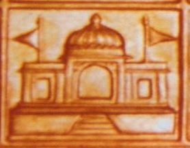 14th Auspicious dream in Jainism The rising residence of Nāgendra, the lord of the devas of the Nāgakumāra clan. Interpretation- Son will be born with clairvoyance